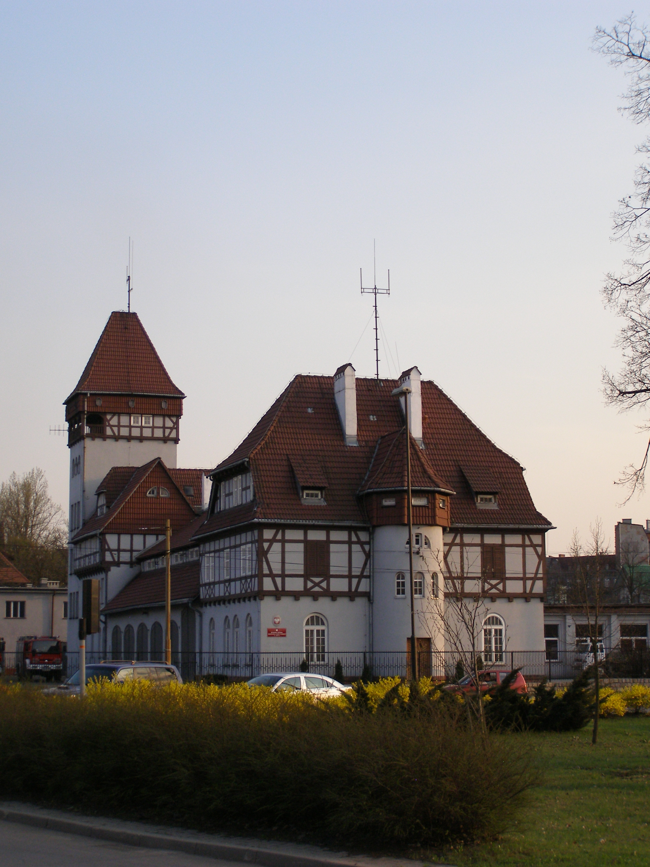 Zabrze - fire station